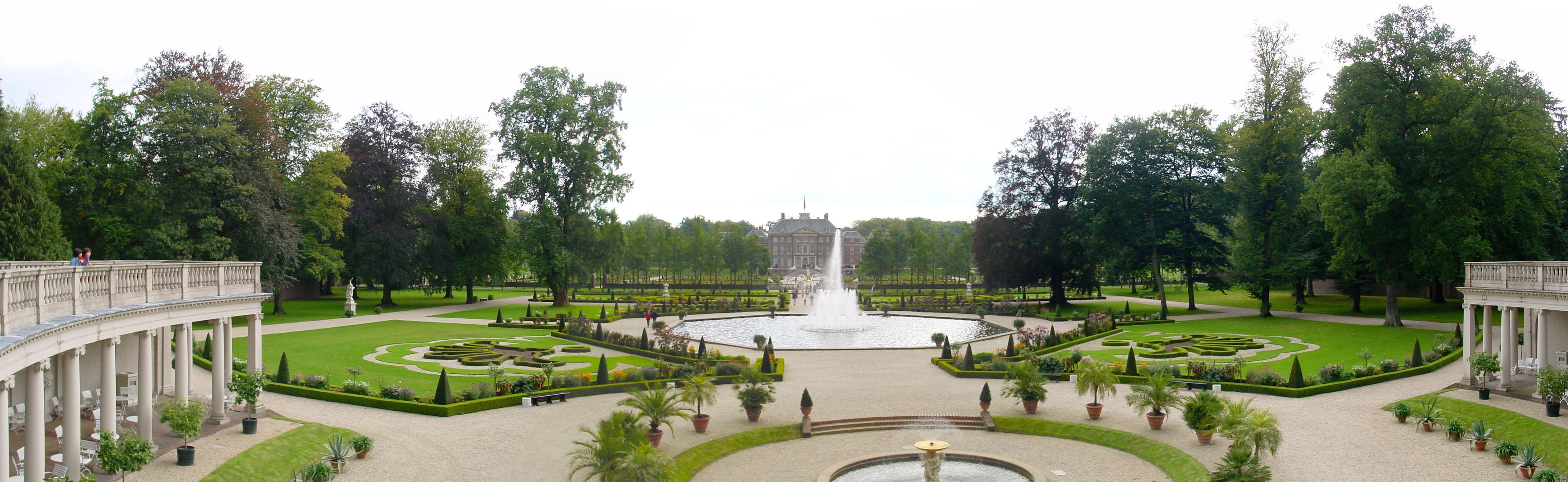 The former royal residence Het Loo near Apeldoorn, Netherlands